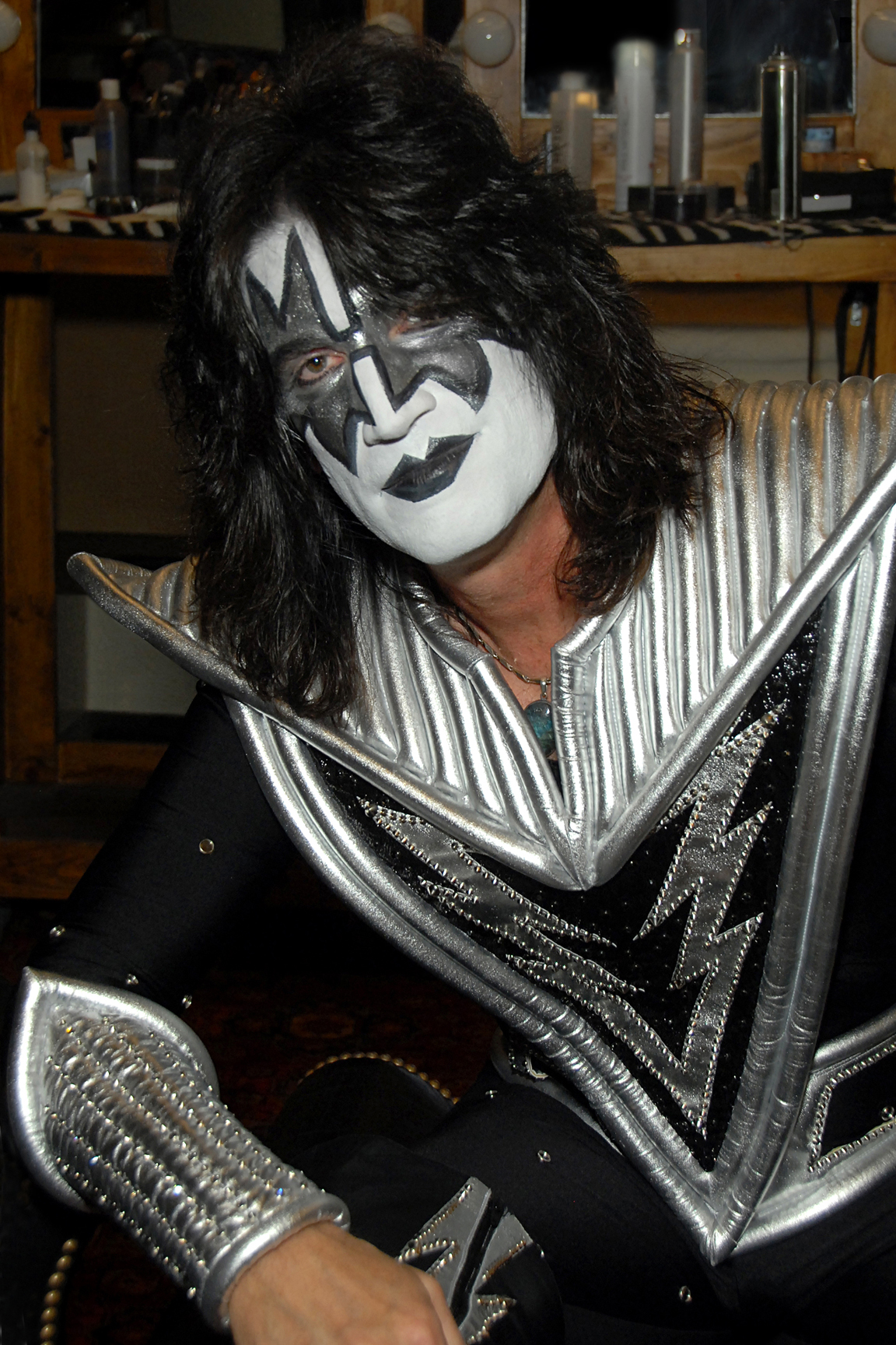 Tommy Thayer, Hollywood, CA on March 20, 2012 - Photo by Glenn Francis of